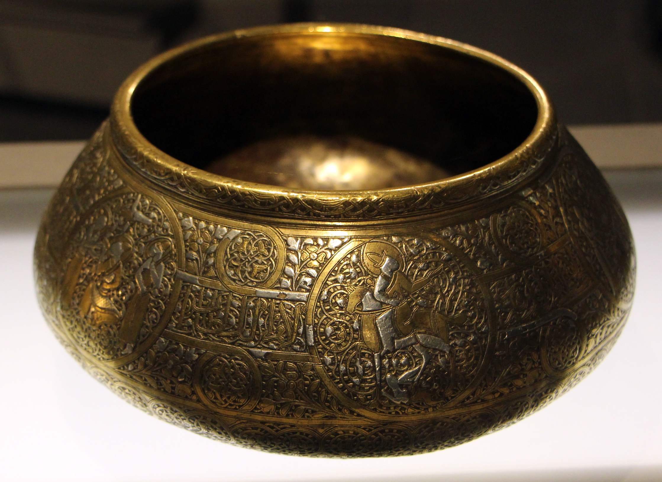 Islamic metalwork in the Louvre